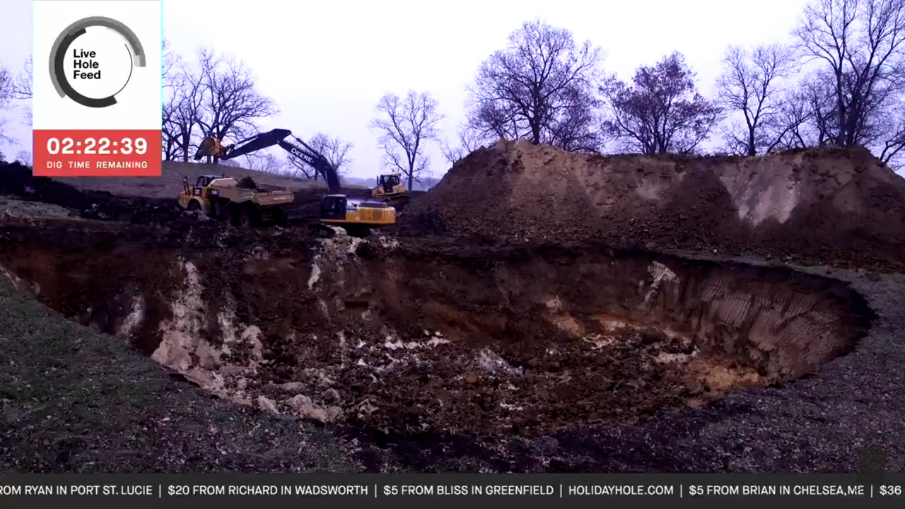 Screenshot from YouTube live stream of Cards Against Humanity's Holiday Hole being dug